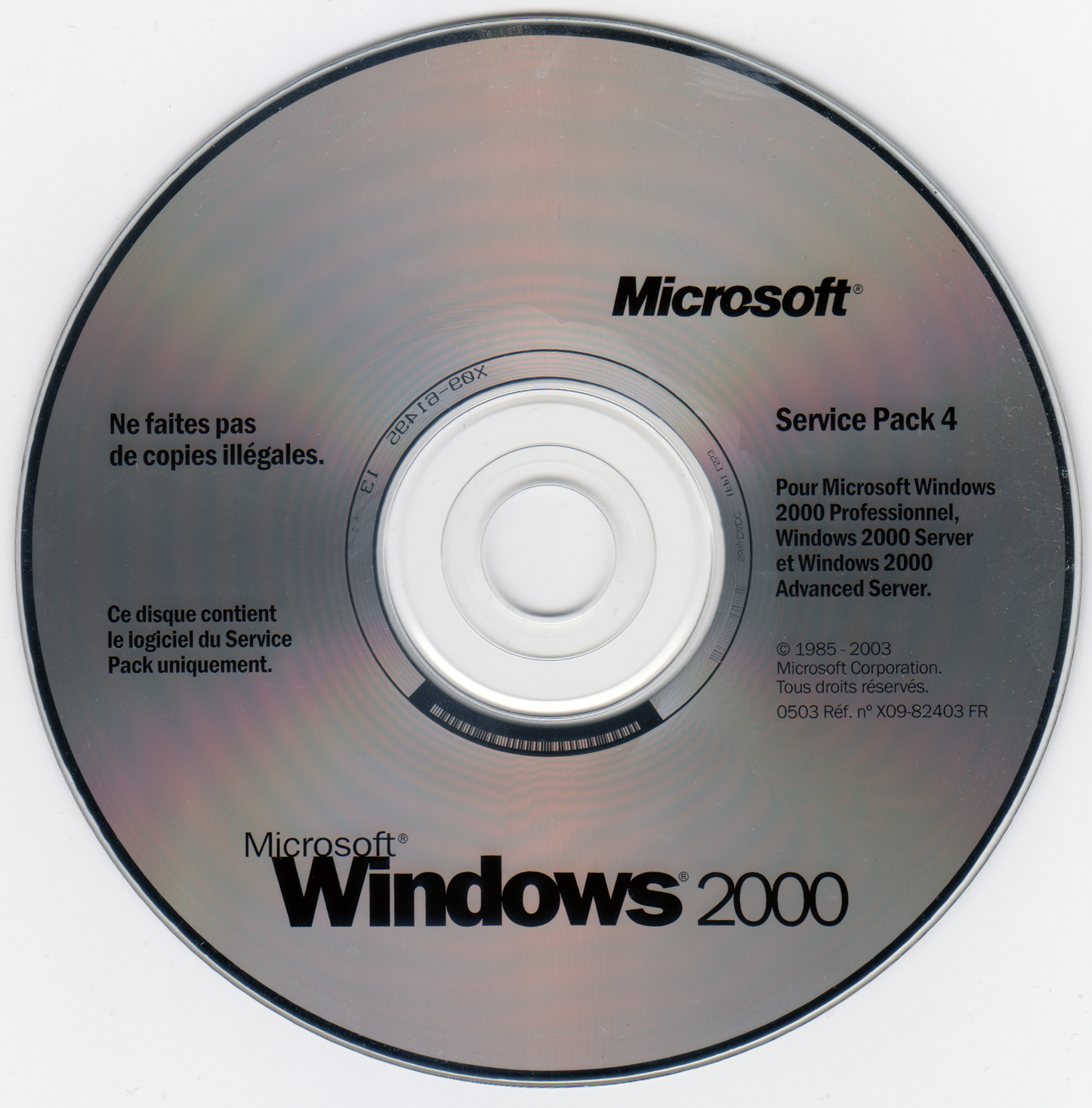 Windows 2000 SP4 install disc (French)